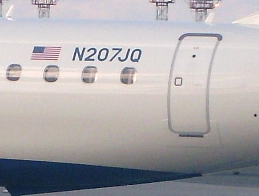 Crop of an Embraer 175 in Delta Connection Livery showing aircraft registration and flag